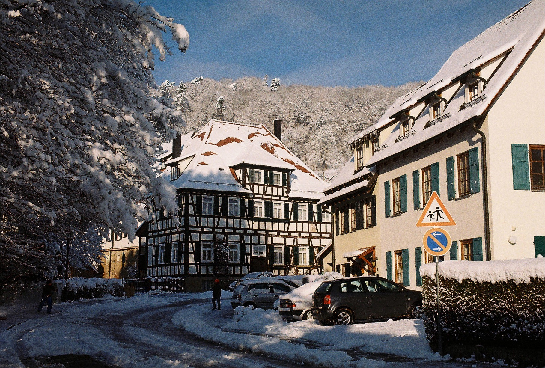 Street of Bebenhausen